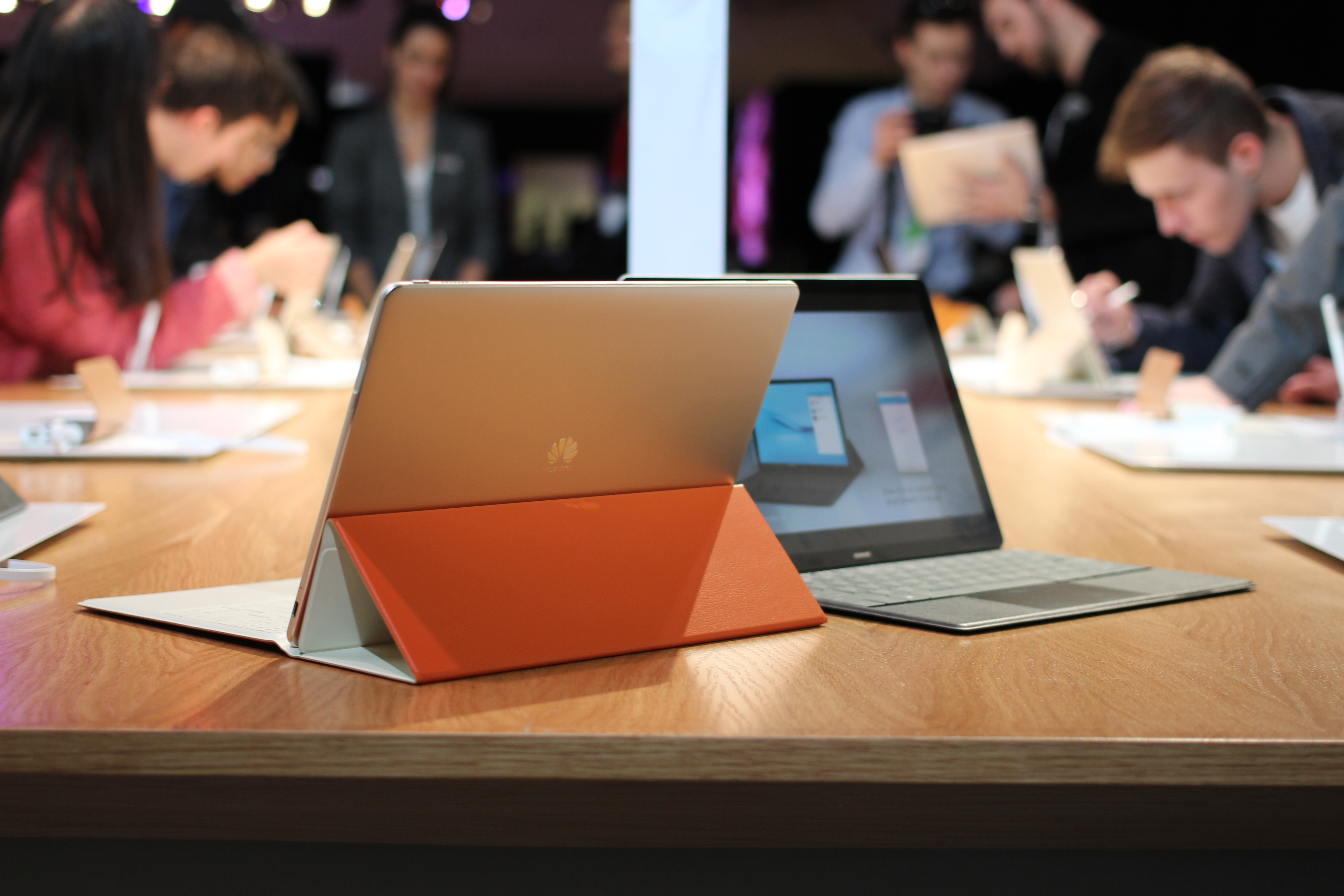 Huawei Matebook 2-in-1 tablet with Windows 10